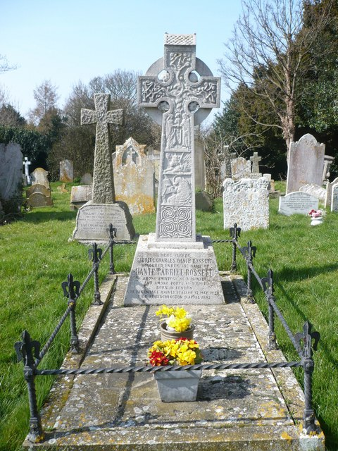 Grave of Dante Gabriel Rossetti. 1828 - 1882 Rossetti died in Birchington in 1882. He was an important member of the Pre-Raphaelite Brotherhood and was a painter and a poet. Fresh flowers are regularly put on the grave.